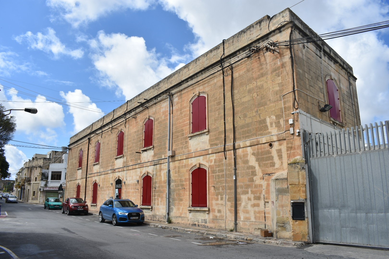 Santa Venera